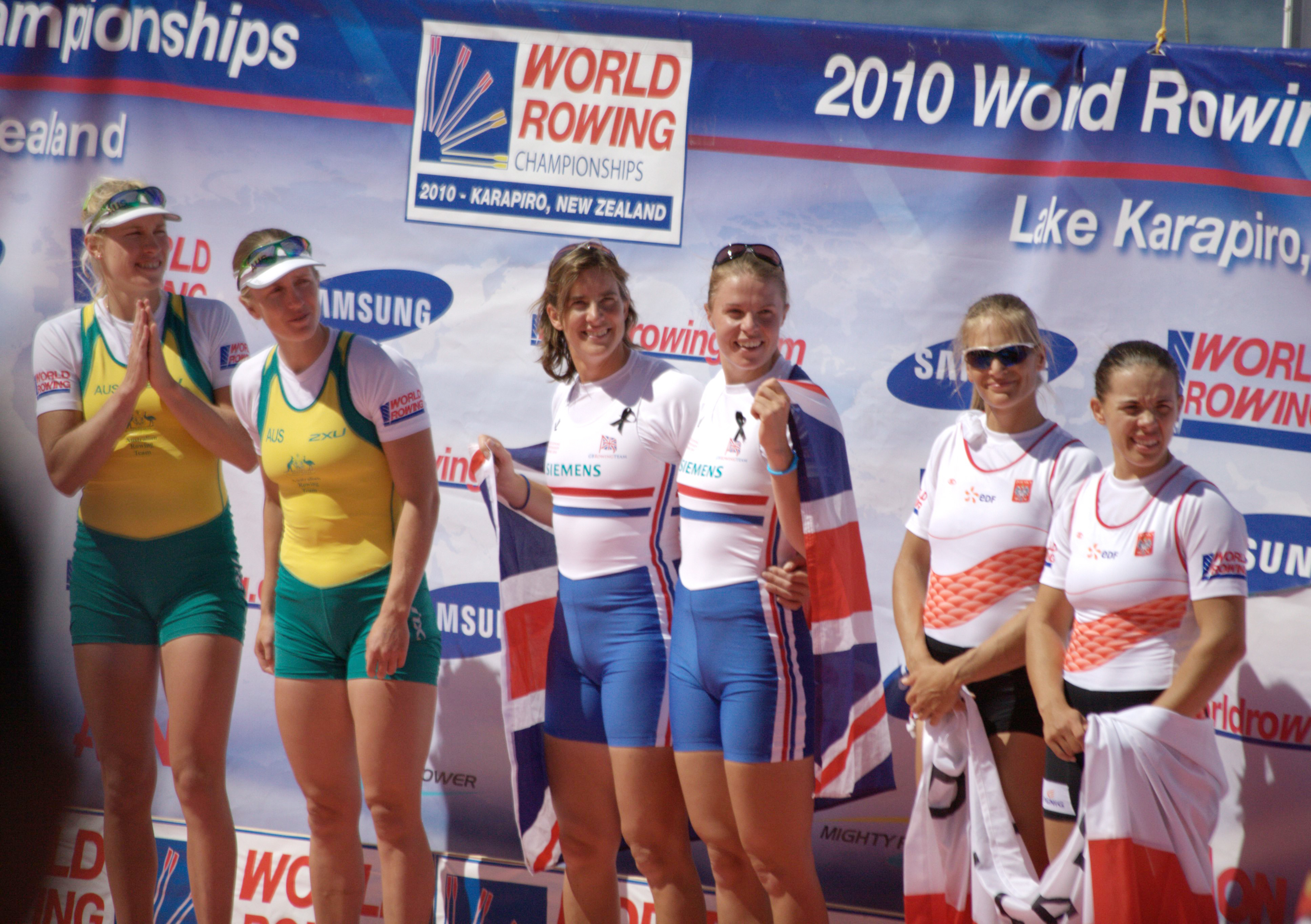 Gold: GB, silver: Australia; bronze: Poland 2010 World Rowing Championships.